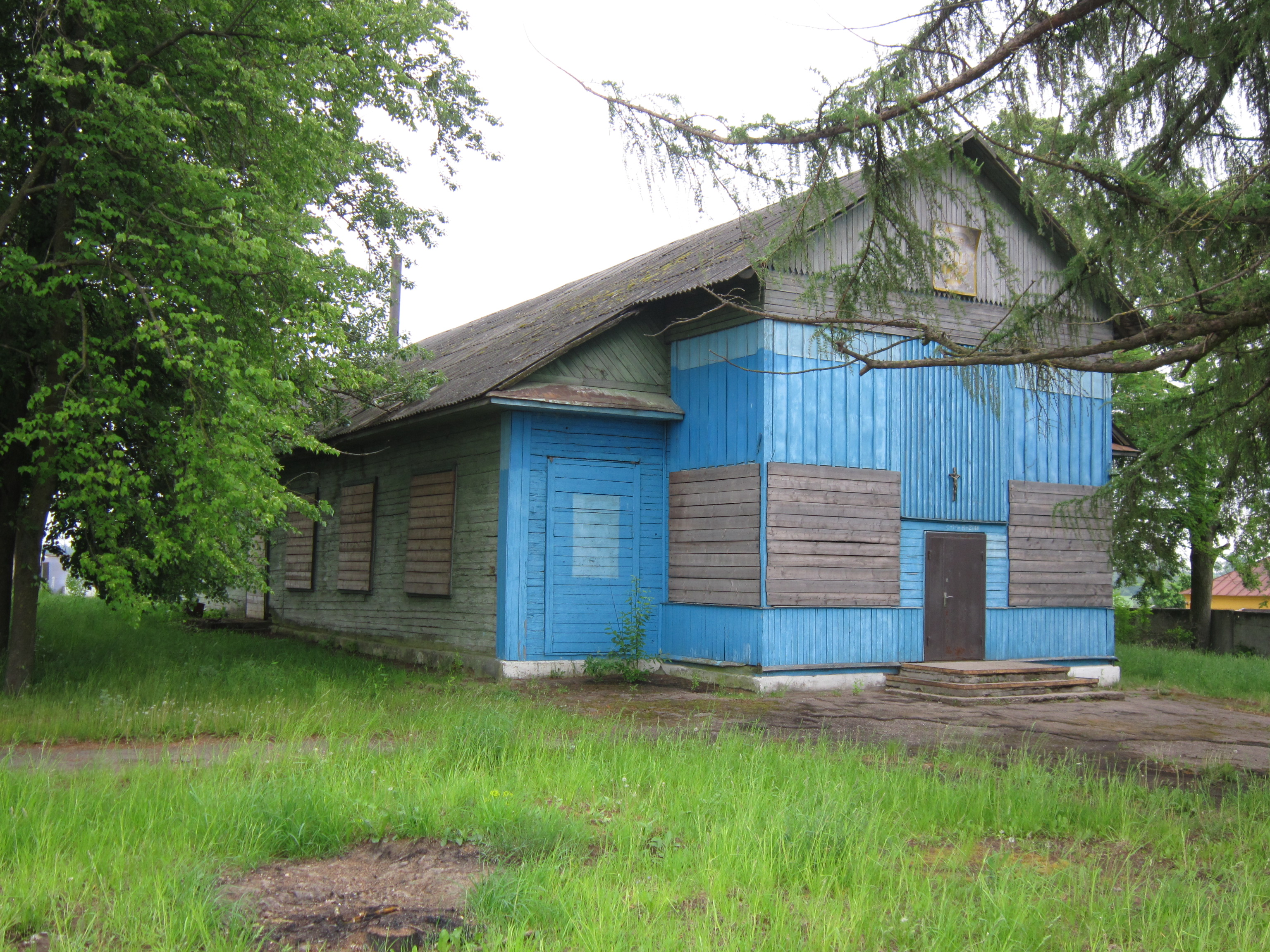 Karališčavičy village, Minsk District, Belarus